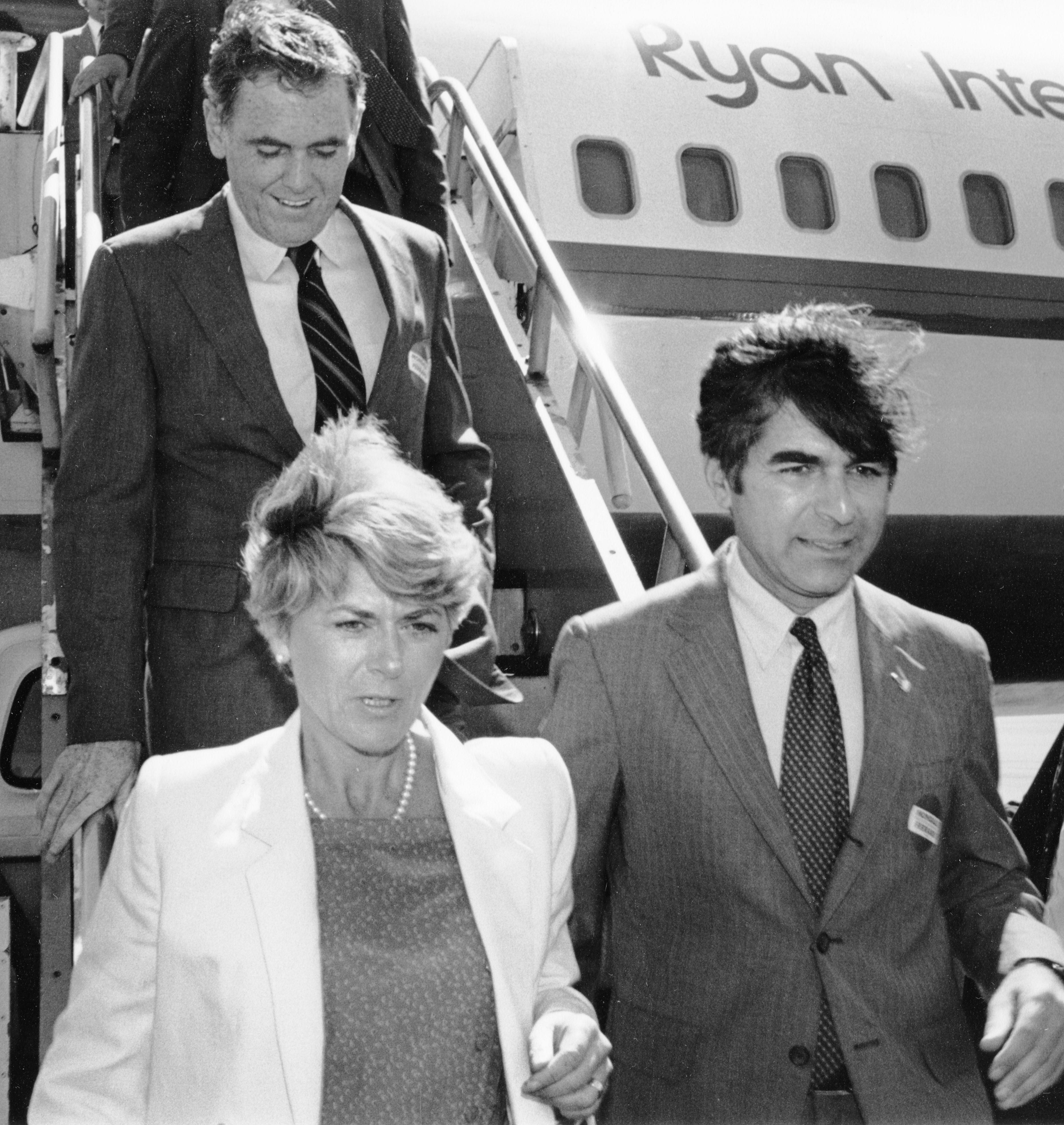 Title: Mayor Raymond L. Flynn, Vice-Presidential Candidate Geraldine Ferraro, Governor Michael Dukakis Creator: Mayor's Office - City Photographer Date: 1984 Source: Mayor Raymond L. Flynn records, Collection #0246.001 File name: RF_0211 Rights: Copyright City of Boston Citation: Mayor Raymond L. Flynn records, Collection #0246.001, City of Boston Archives, Boston